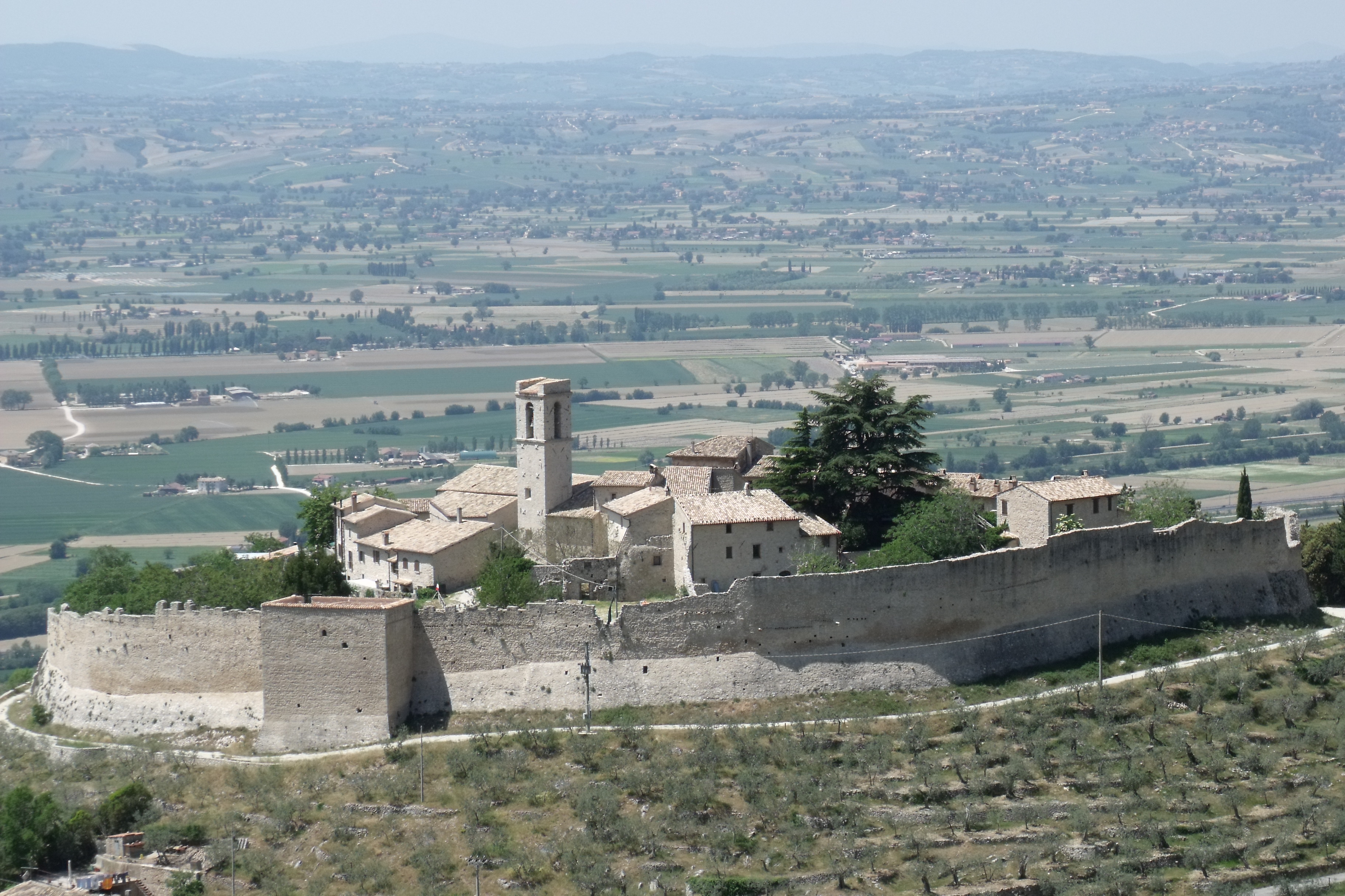 Panorama of Campello Alto in Campello sul Clitunno, Province of Perugia, Umbria, Italy